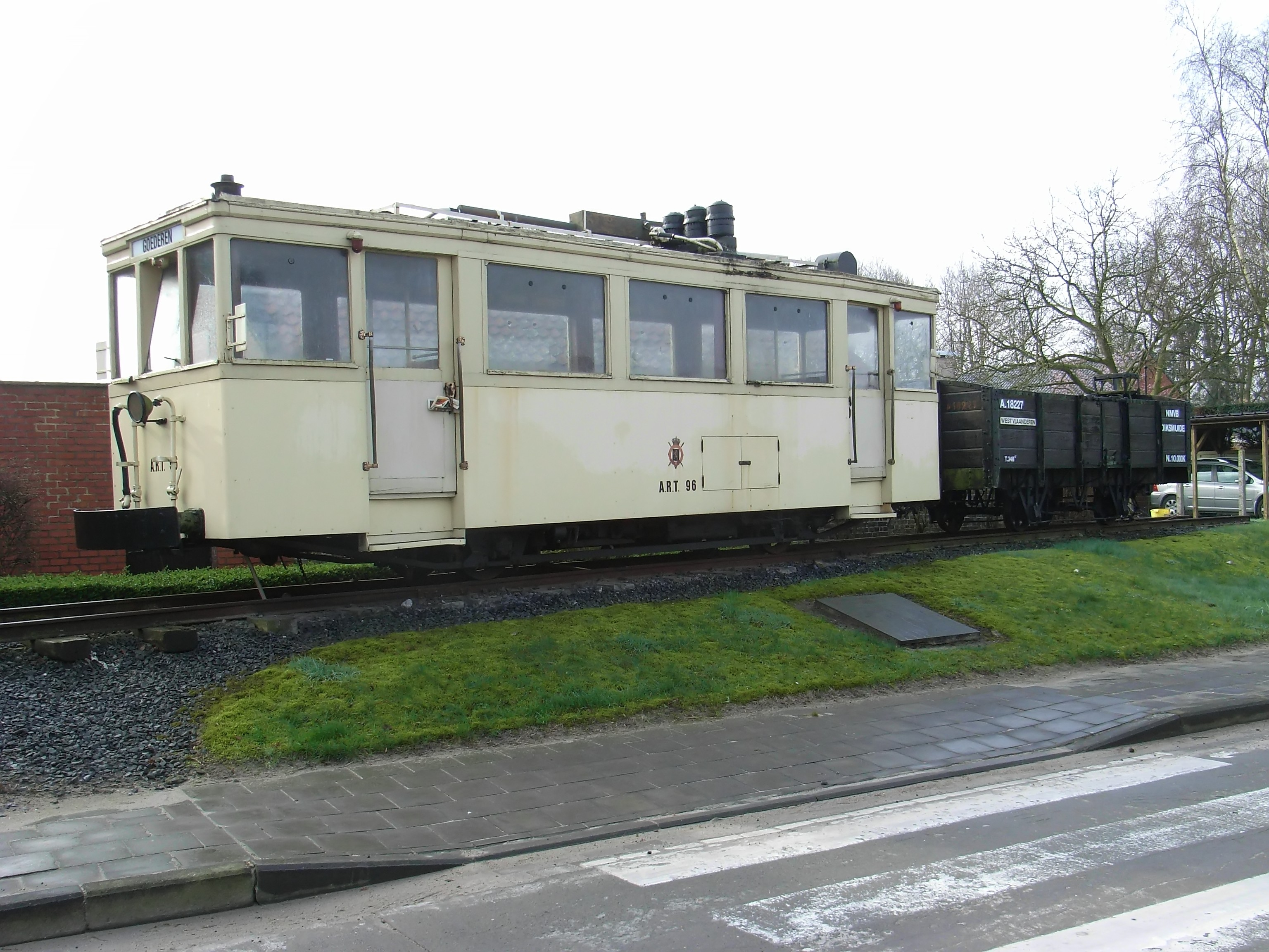 Tram Kamieltje standing in Koekelare, Belgium.